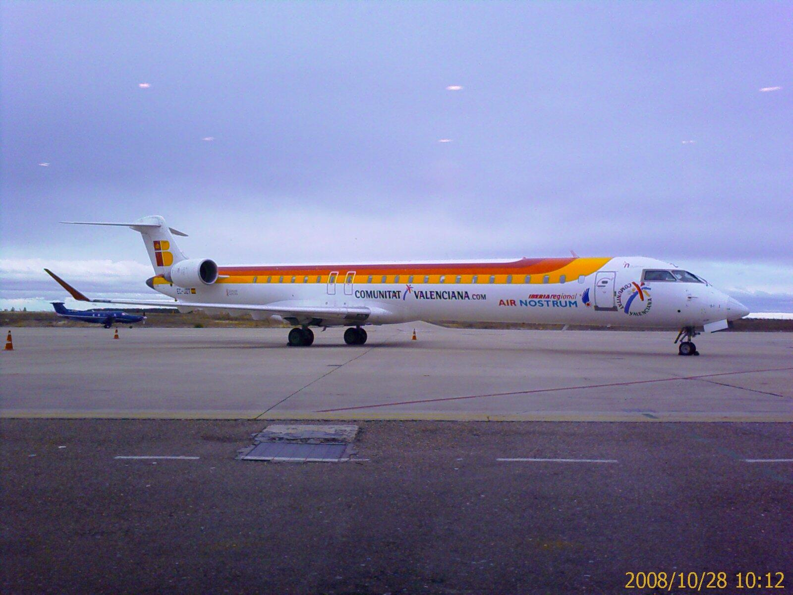 CRJ900 in Valladolid Airport